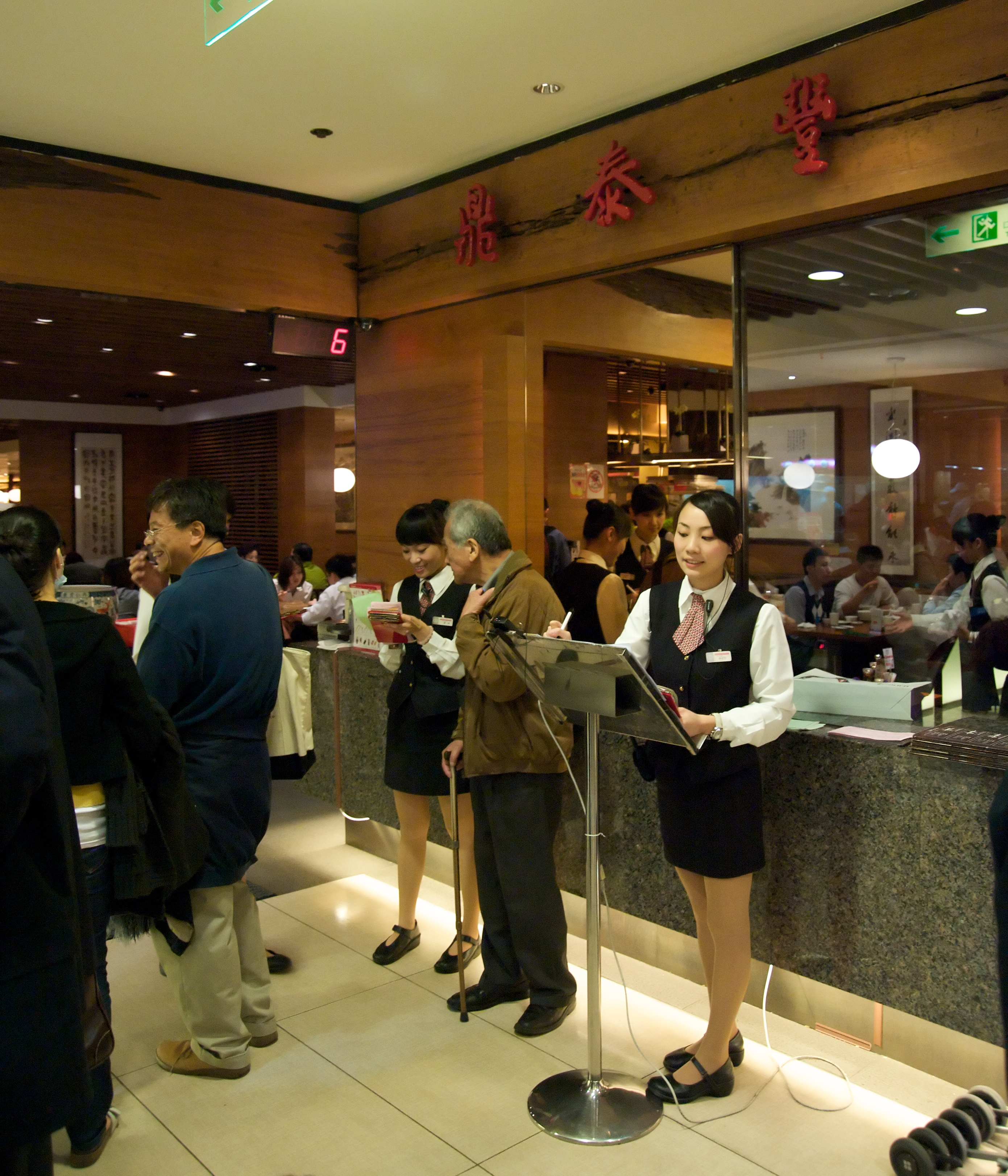 DinTaiFung Dumpling House at Pacific Sogo ZhongXiao Store.